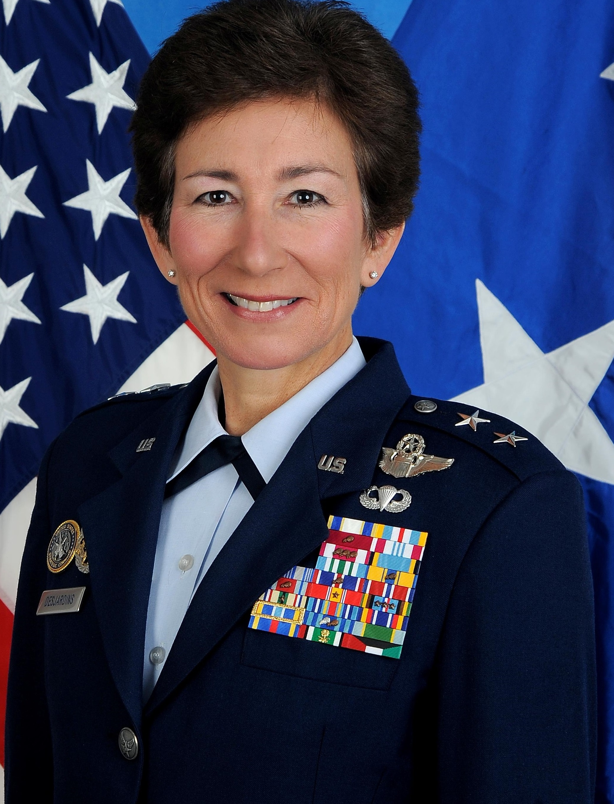 Major General Susan Y. Desjardins, USAF